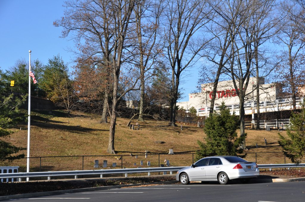 The Mount Moor African-American Cemetery in West Nyack, New York. The Palisade Center Mall (on whose grounds the cemetery is located) is visible in the background.